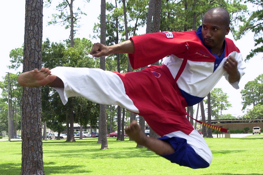 US Air Force (USAF) Staff Sergeant (SSGT) Robert Parham, 81st Medical Group, demonstrates his championship martial arts skills outside the Blake Fitness Center at Kessler Air Force Base (AFB), Mississippi (MS). (original text)